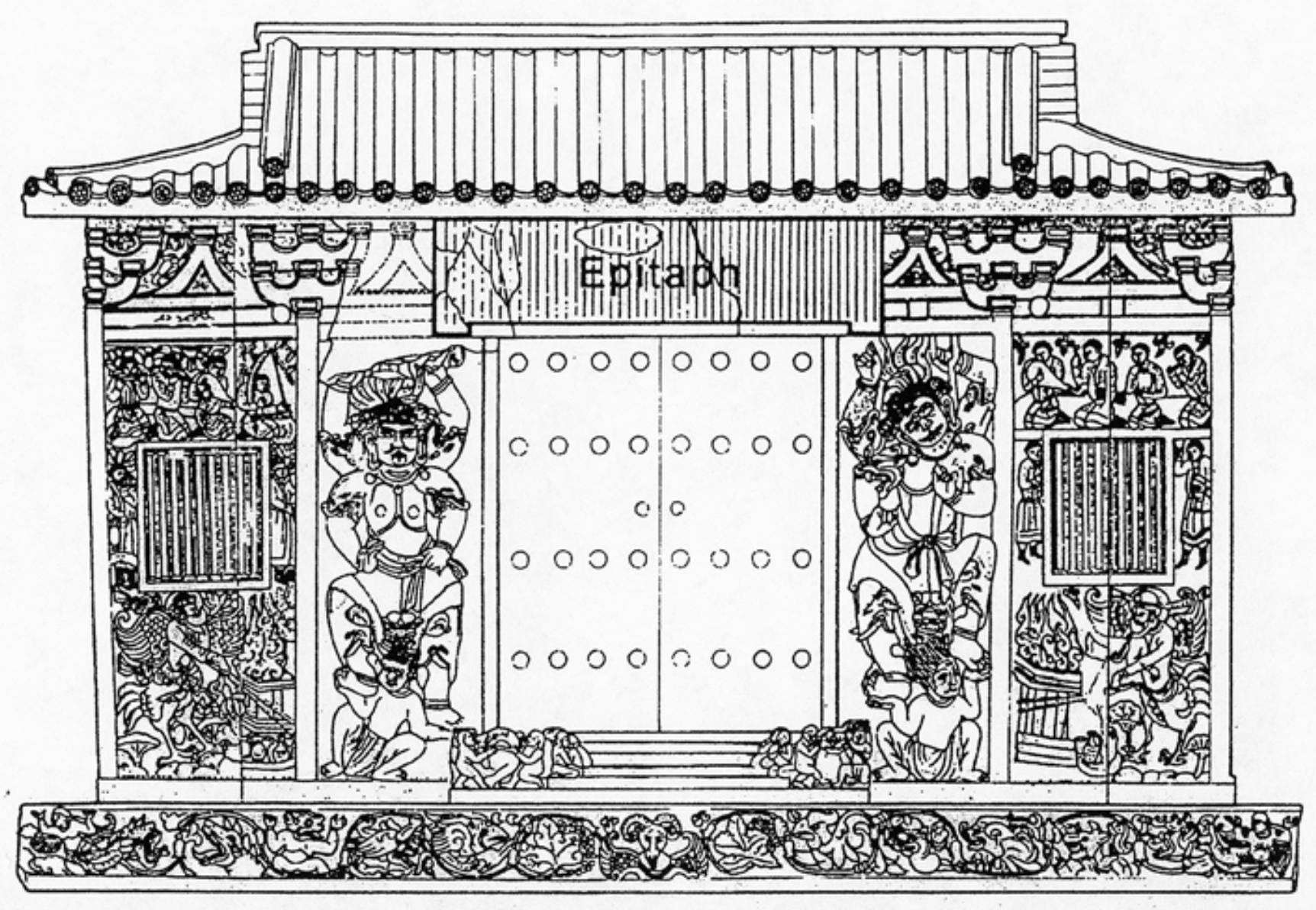 The stone sarcophagus discovered in the sa-pao Wirkak’s tomb.